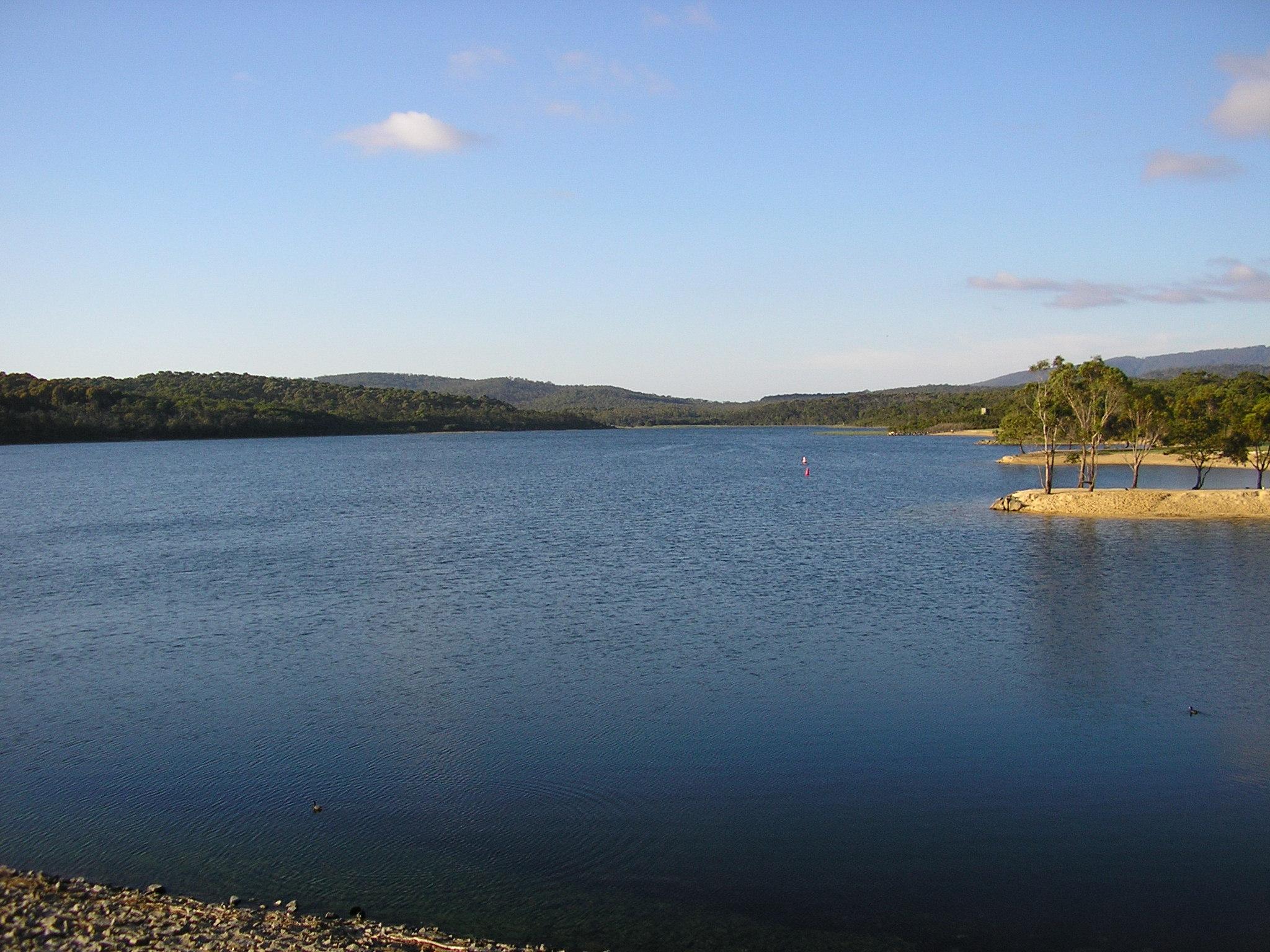 Lysterfield Lake (looking north). Taken by K.Riegel 26-11-2007